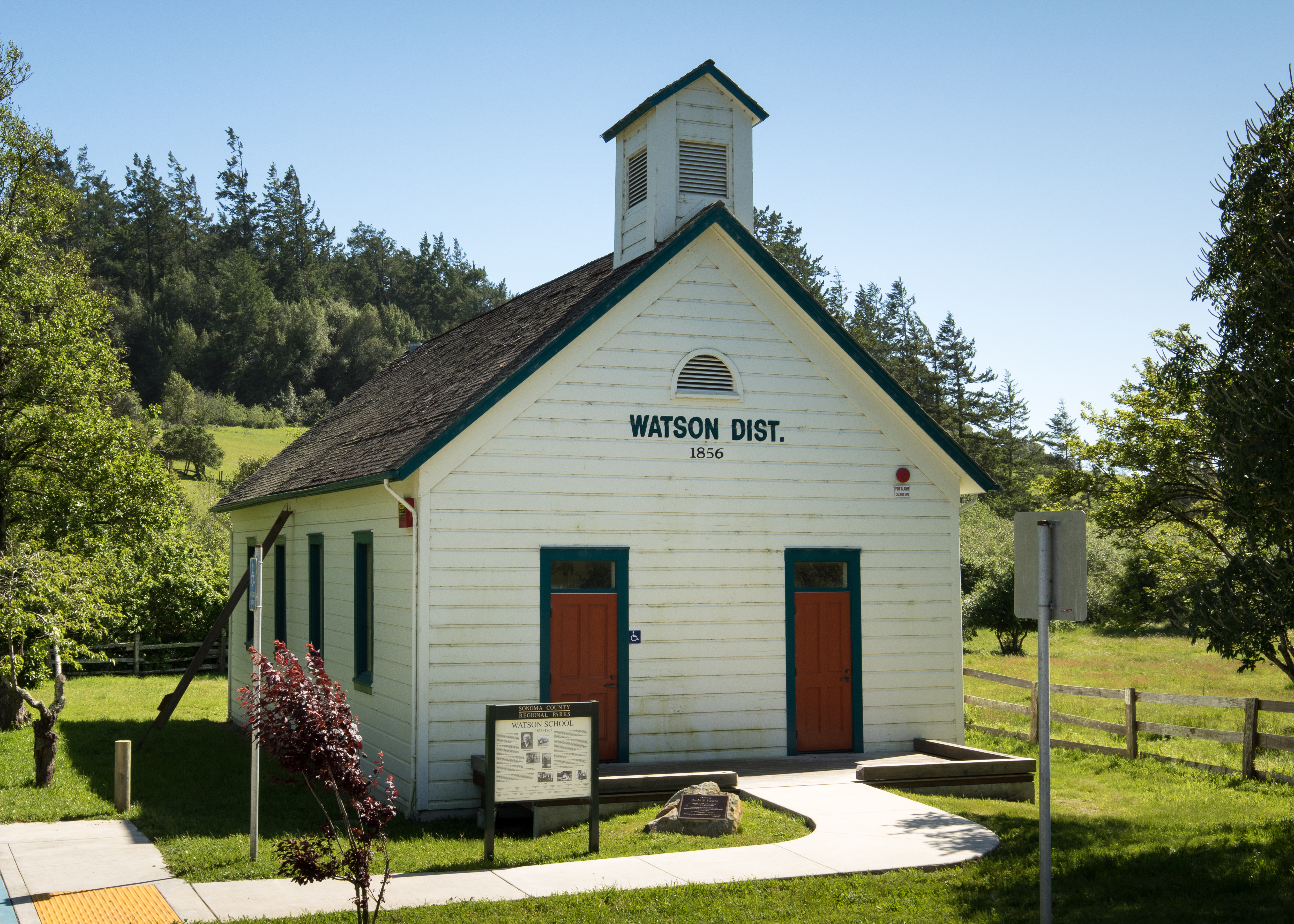 Watson School, one room schoolhouse near Bodega, Sonoma County, California